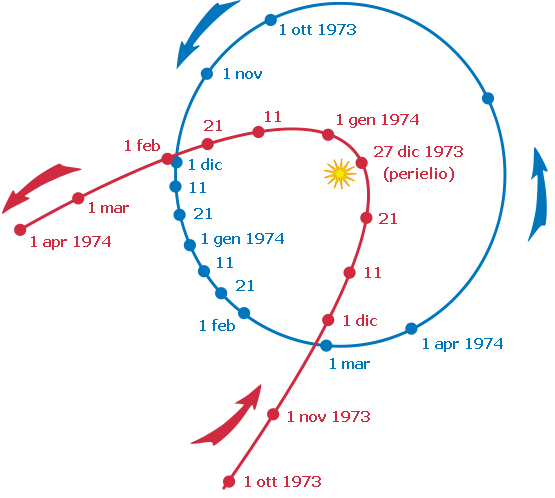 Orbit of Comet Kohoutek, 1973–1974 Redrawn from Image:Comet Kohoutek orbit p391.jpg Original from NASA and in the public domain, redrawing by me also released to public domain.